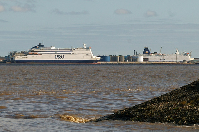 P & O Ferries seen from Goxhill Haven, Goxhill, Lincolnshire, England. The nearest vessel is "Pride of Rotterdam" berthed at King George Dock, River Terminal 1, Hull, East Riding of Yorkshire, England.